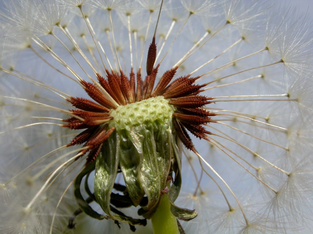 Taraxacum officinale fruits